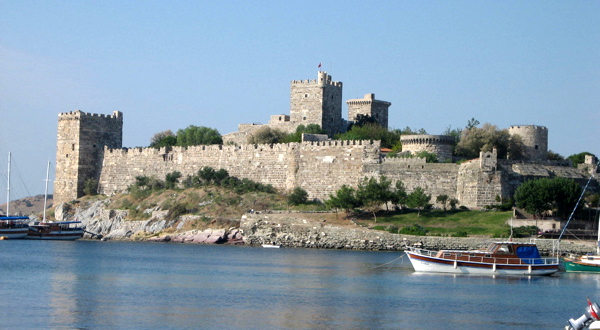 The castle of Bodrum in Turkey, south-eastern aspect